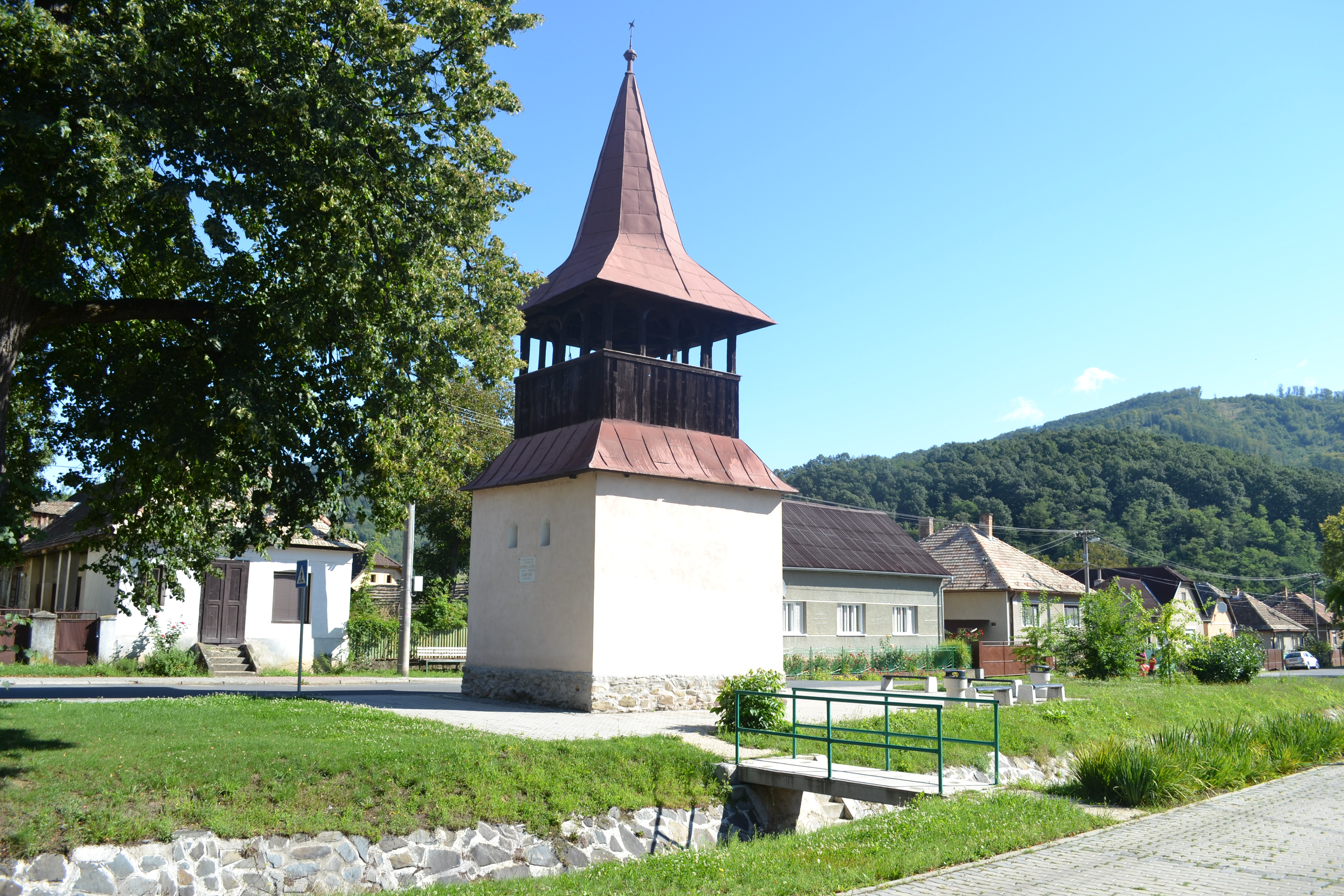 Bell tower, built in 1673Slovenčina: Zvonica, postavená v roku 1673 Object location48° 29′ 51.22″ N, 19° 40′ 57.65″ E